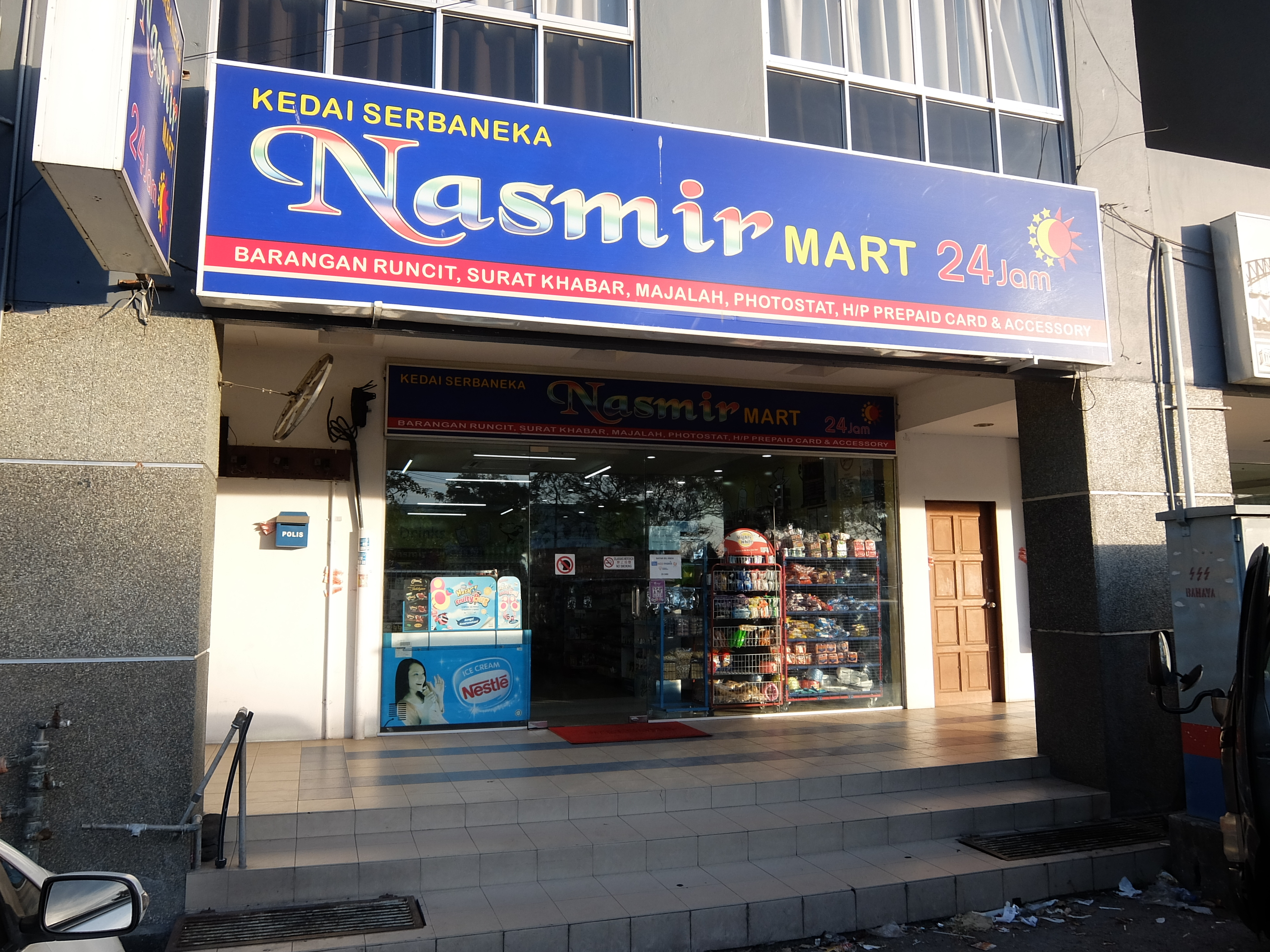 Nasmir Mart, Taman Pelangi, Bukit Mertajam, Central Seberang Perai, Penang, Malaysia